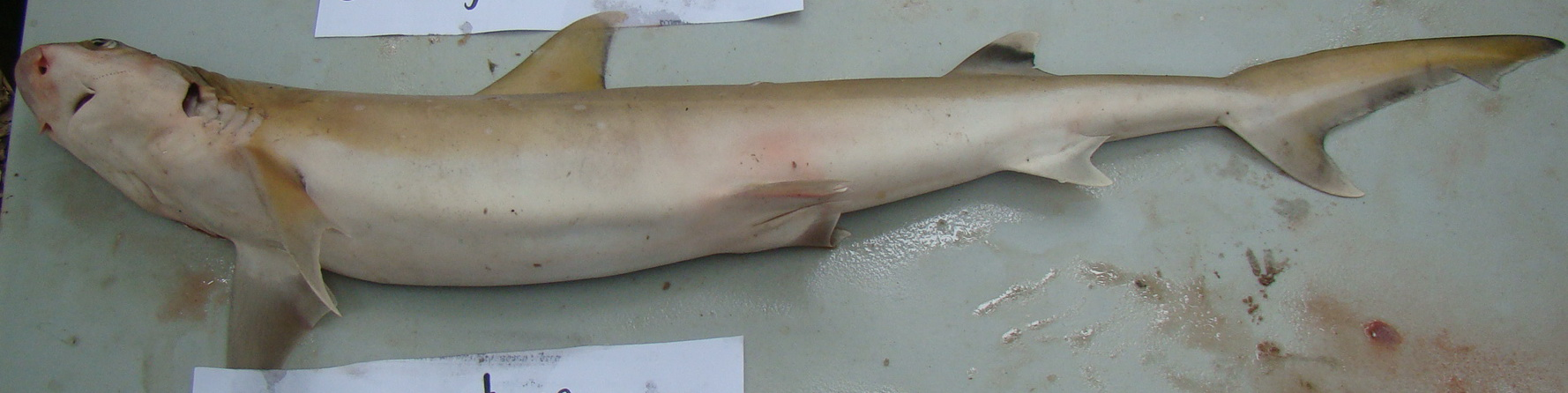 Sicklefin weasel shark (Hemipristis microstoma) at Ranong Fishing Port, Thailand